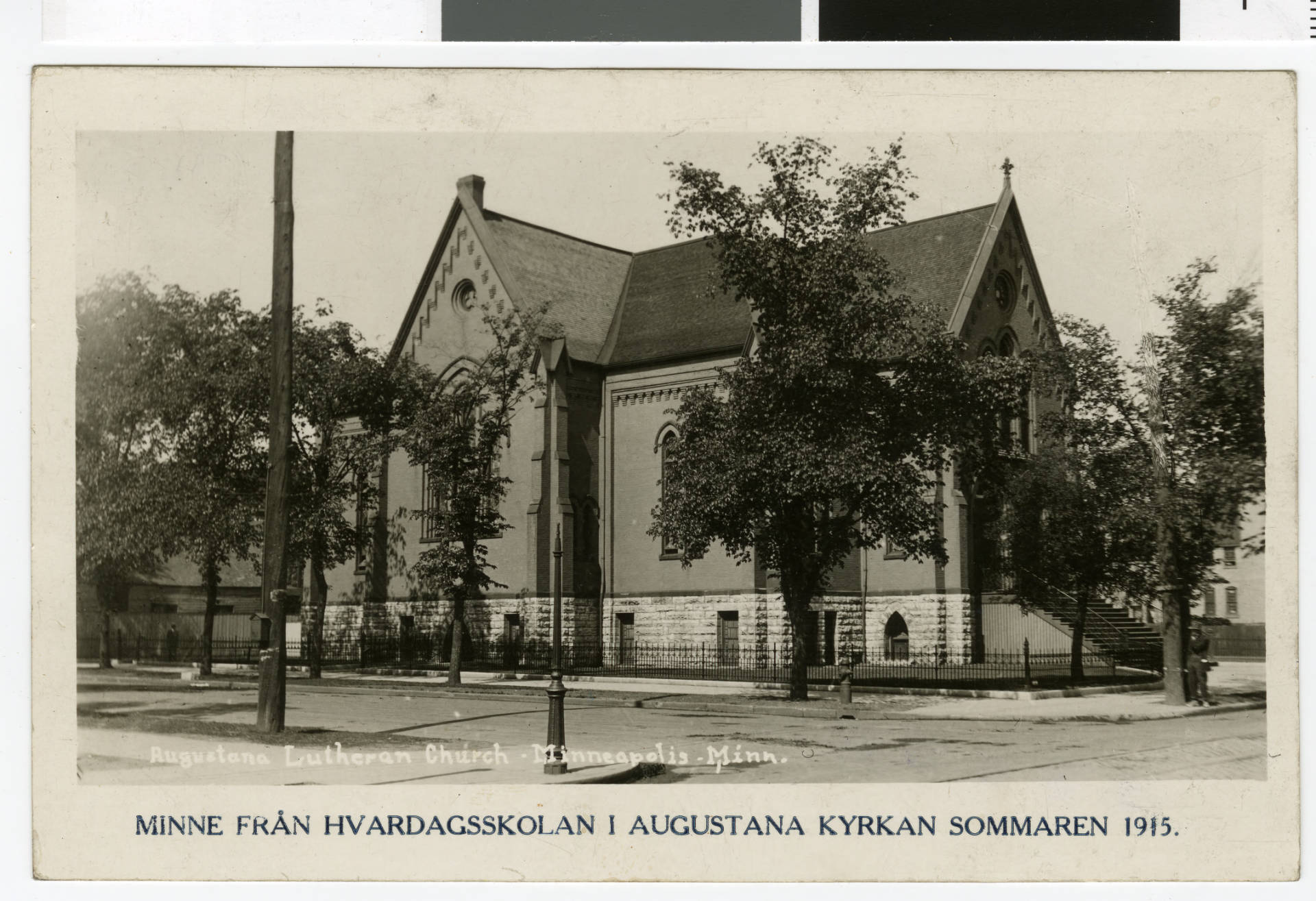 Photo description in Swedish; it reads "Memory Of The Everyday School | Augustana Church Summer"